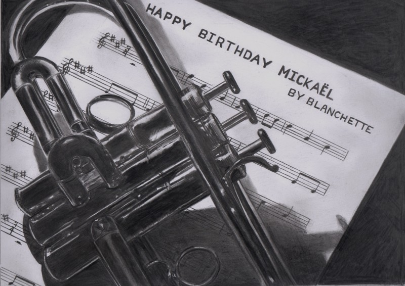 Graphite on paper by Robert J. Blanchette. Drawing of trumpet on sheet music. The music is "Happy Birthday"